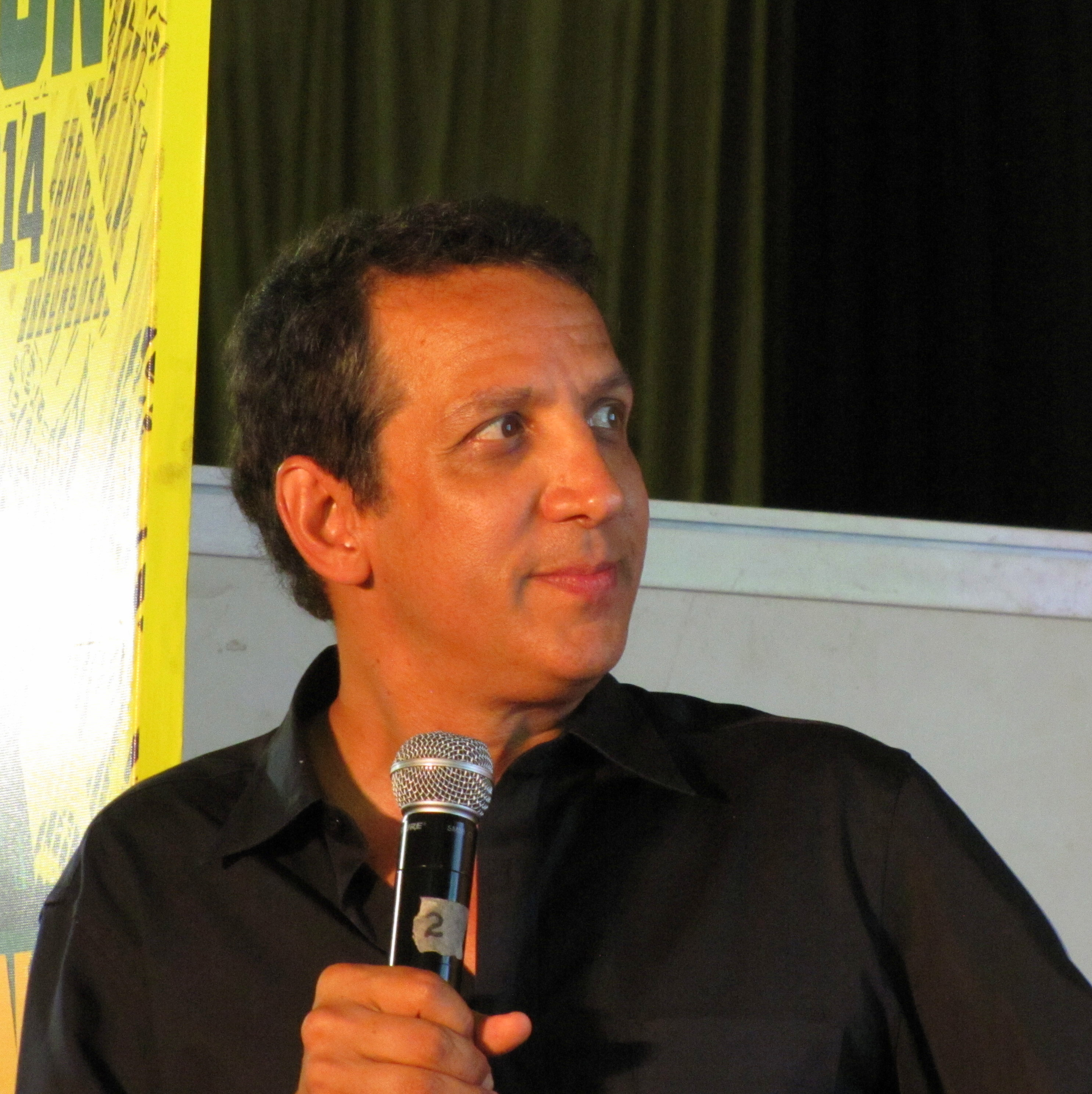 American Cartoonist Peter Kuper Shot taken at Comic Con 2014 Bangalore, India